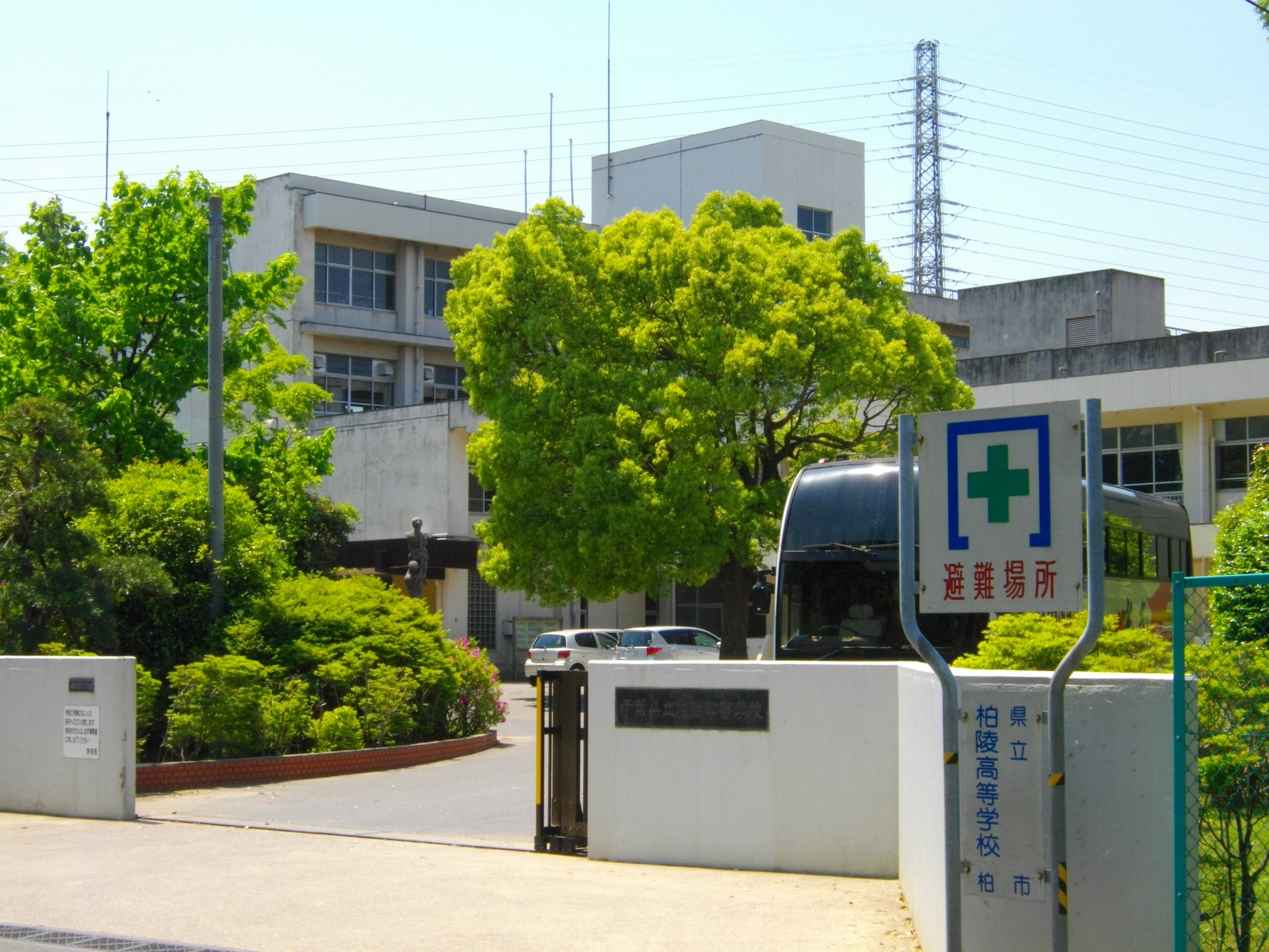 Chiba Prefectural Hakuryo High School